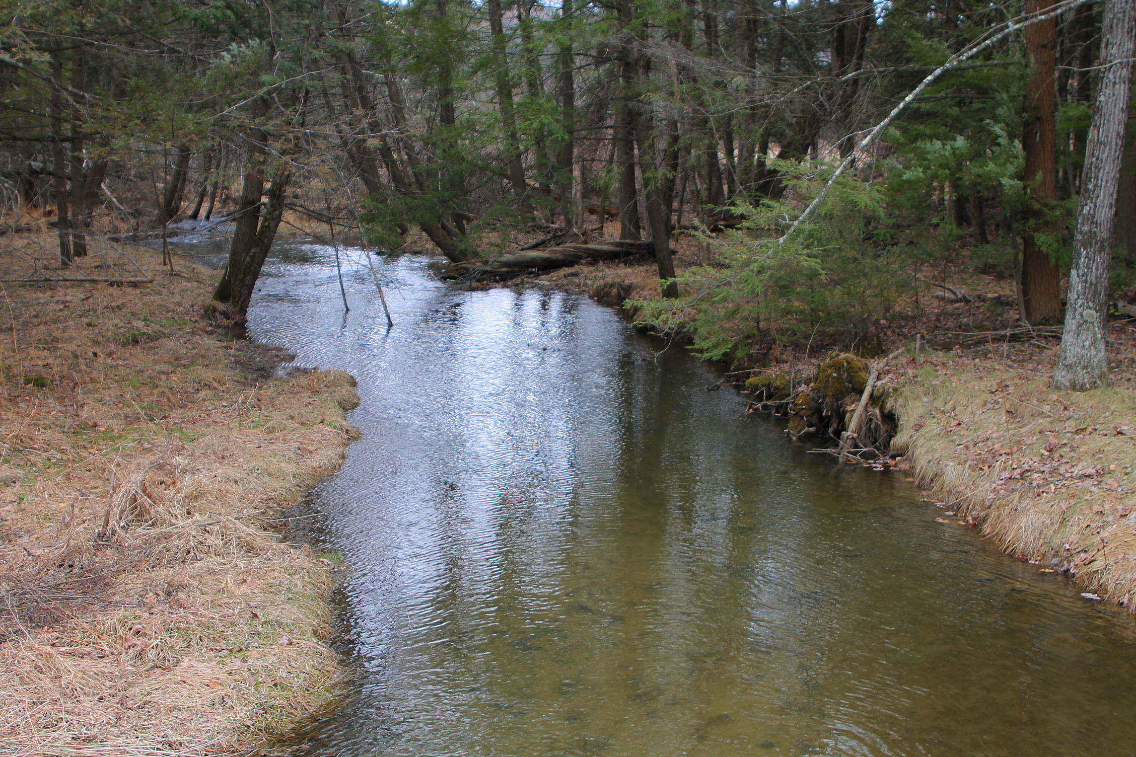 East Branch Raven Creek looking downstream from Pennsylvania Route 239